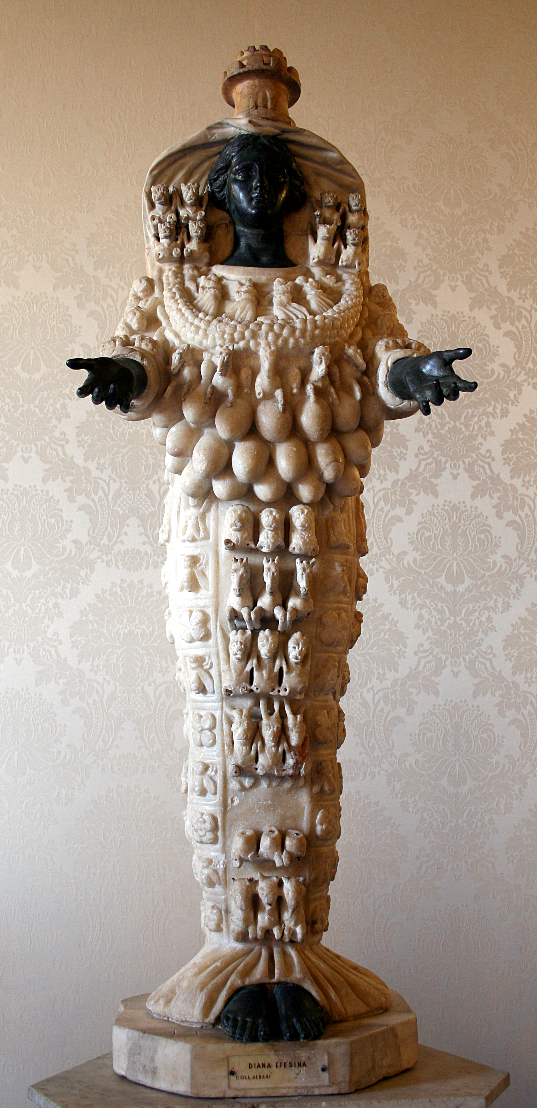 Artemis of Ephesus. Marble and bronze, Roman copy of an Hellenistic original of the 2nd century BC.